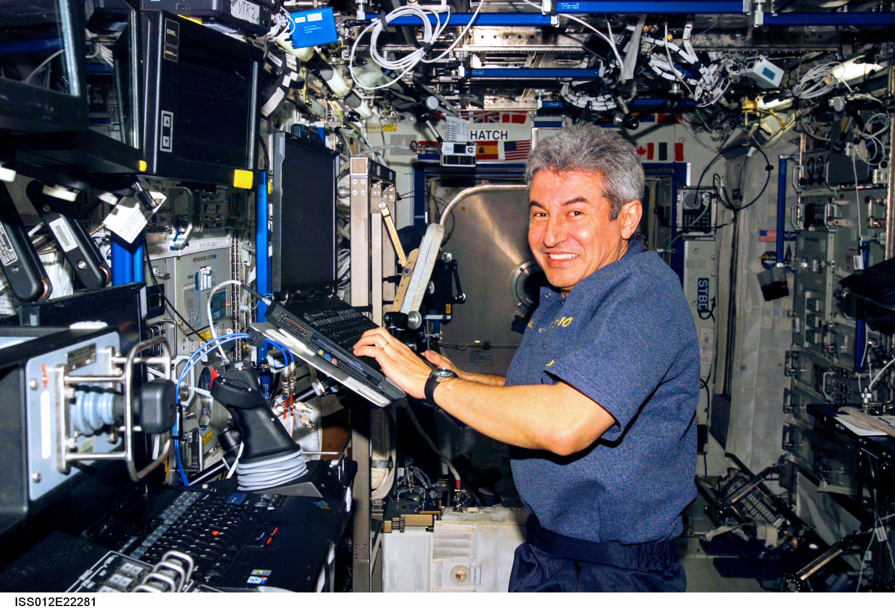 Brazilian Astronaut Marcos Pontes inside the US Destiny Laboratory of the International Space Station